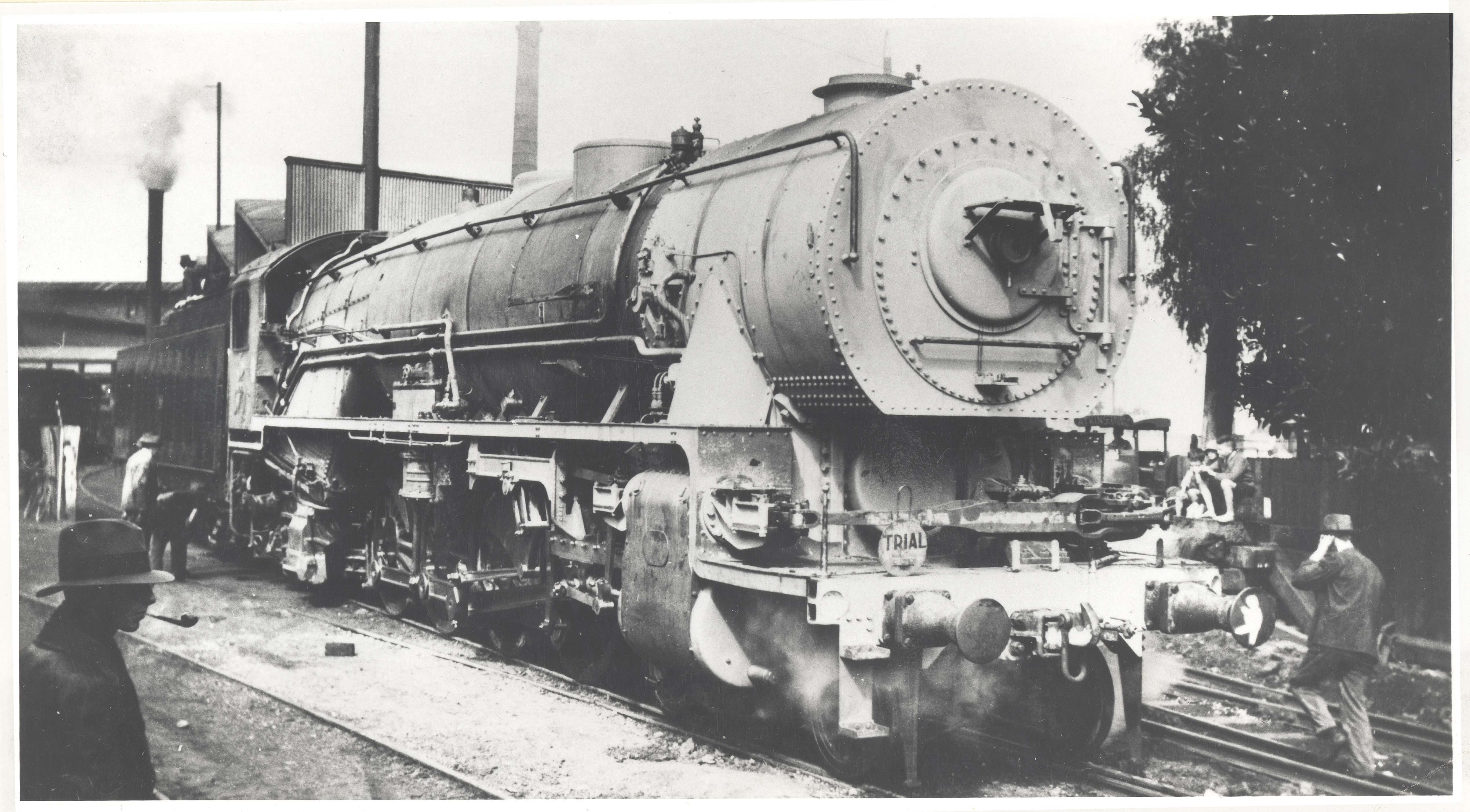 5701 departing Clyde for a trial run to Penrith